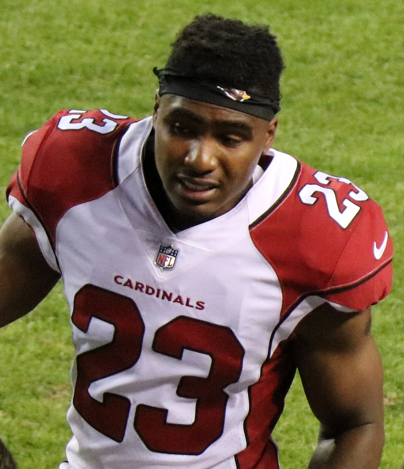 Sojourn Shelton, a player on the National Football League.